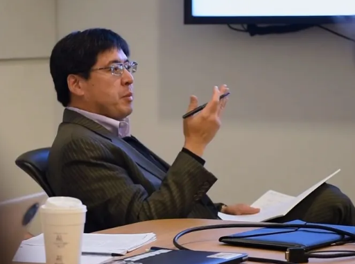 Photo of neuroscientist Sam Wang